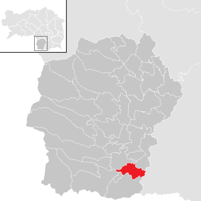 District Deutschlandsberg, Styria, Austria